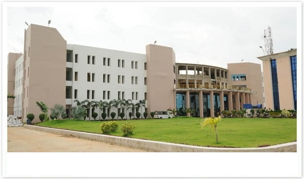 IMIS Bhubaneswar Odisha